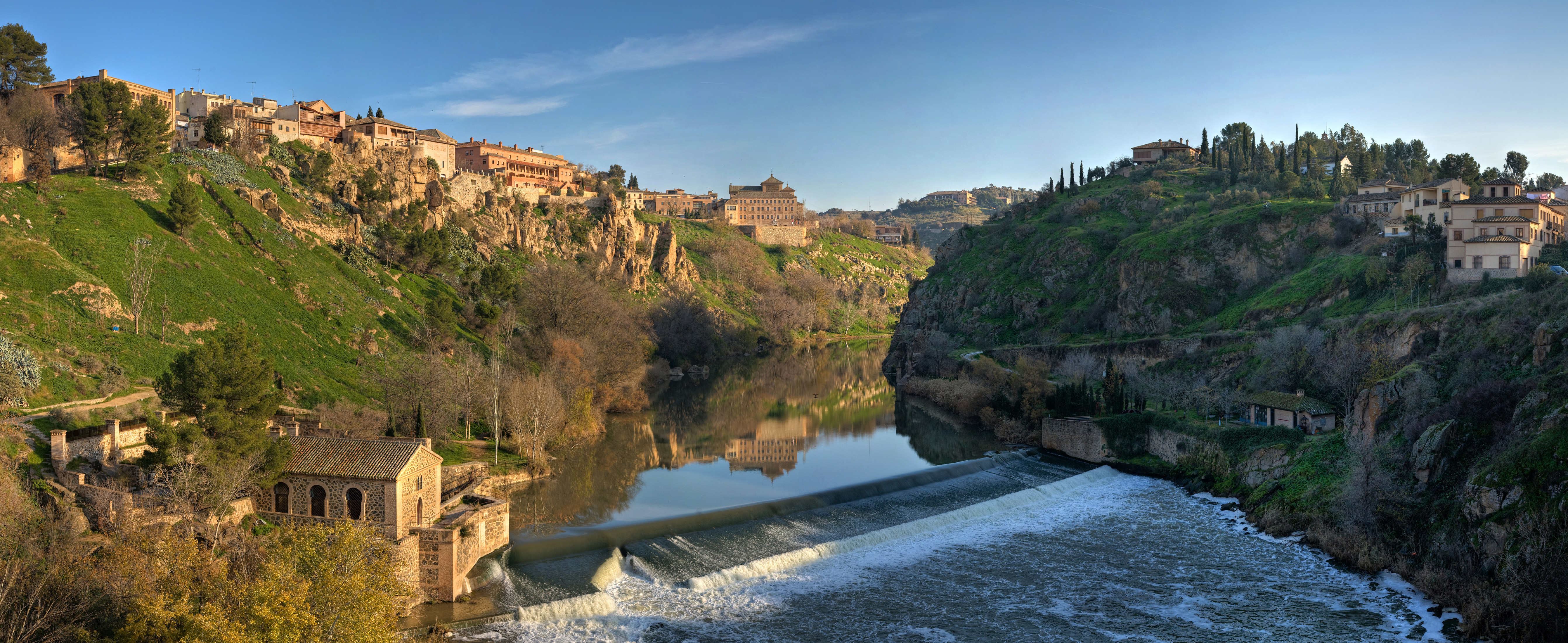 A five-segment panorama of the Tagus River in Toledo, Spain. Taken with a Canon 5D and 24-105mm f/4L lens.